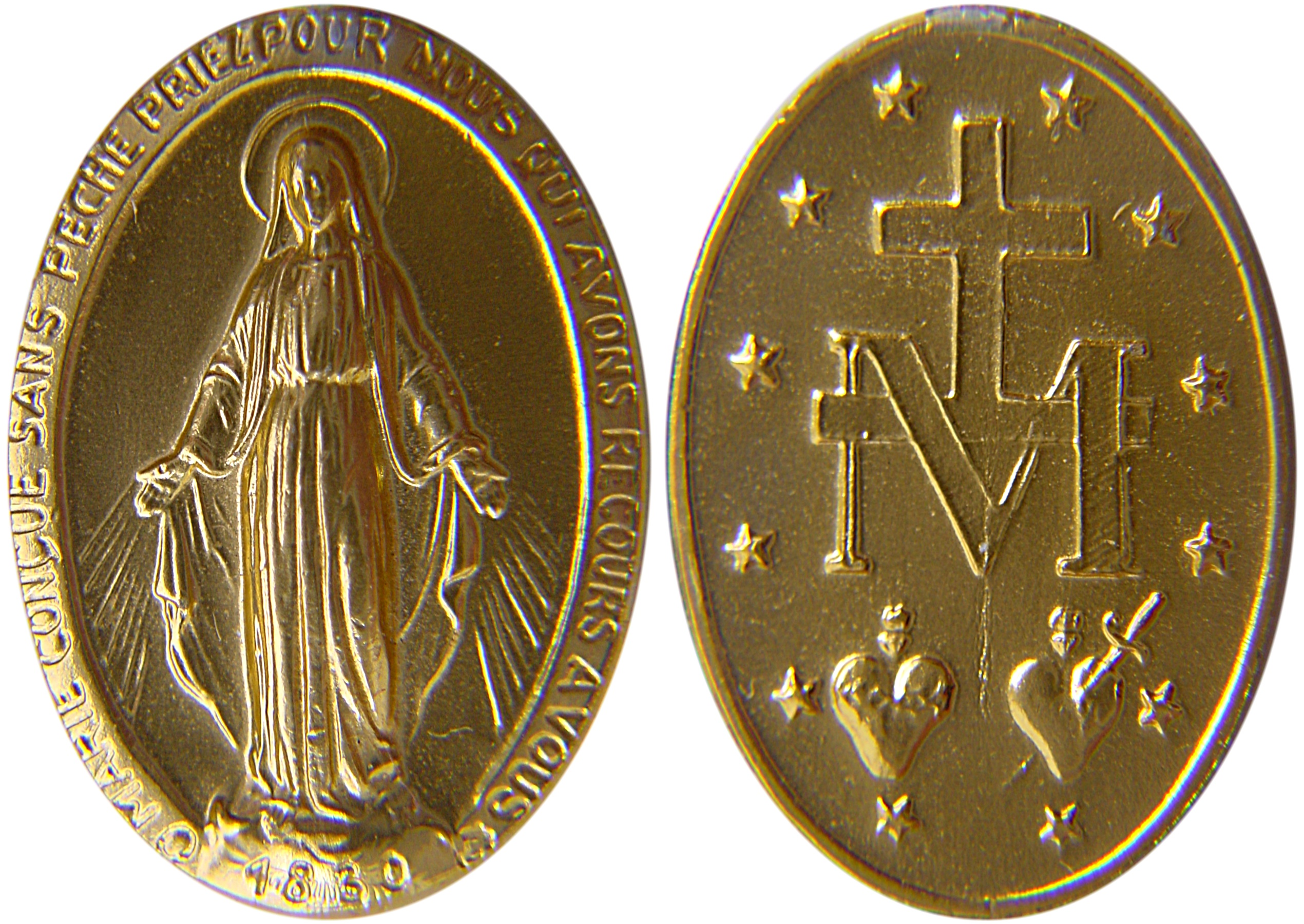 Medal of the Immaculate Conception (aka Miraculous Medal), a medal created by Saint Catherine Labouré in response to a request from the Blessed Virgin Mary who allegedly appeared rue du Bac, Paris, in 1830. The message on the recto reads: "O Mary, conceived without sin, pray for us who have recourse to thee — 1830".